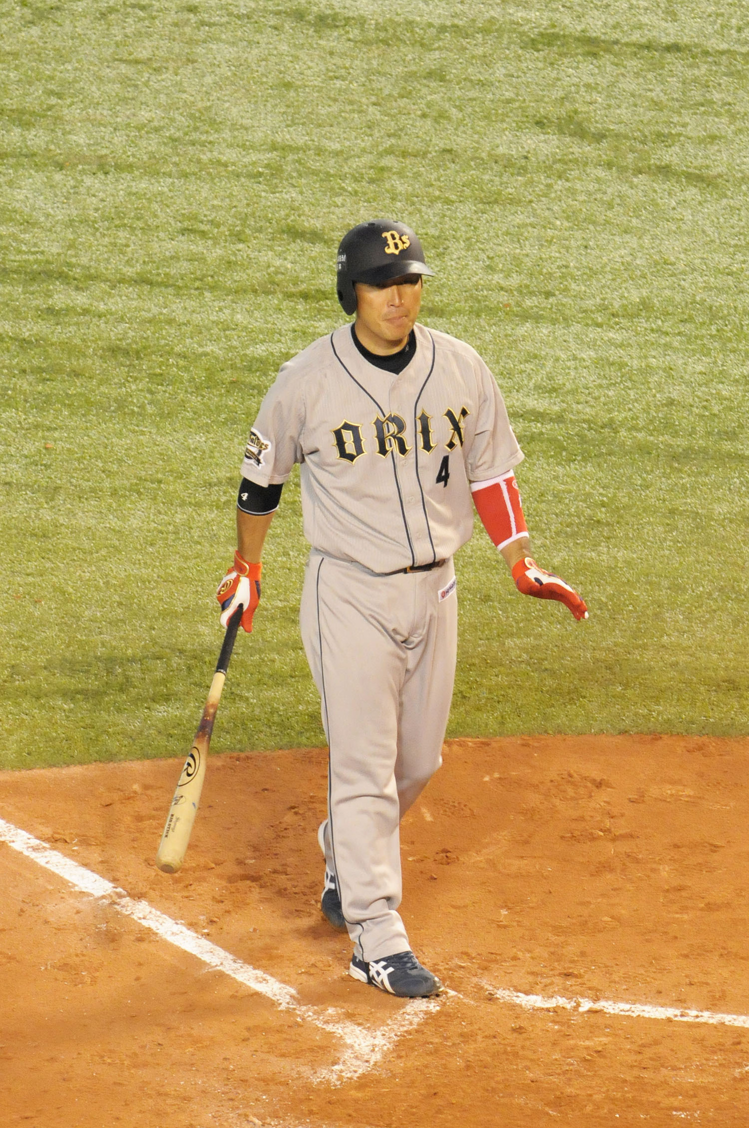 Shogo Akada, outfielder of the Orix Buffaloes, at Chiba Marine Stadium.